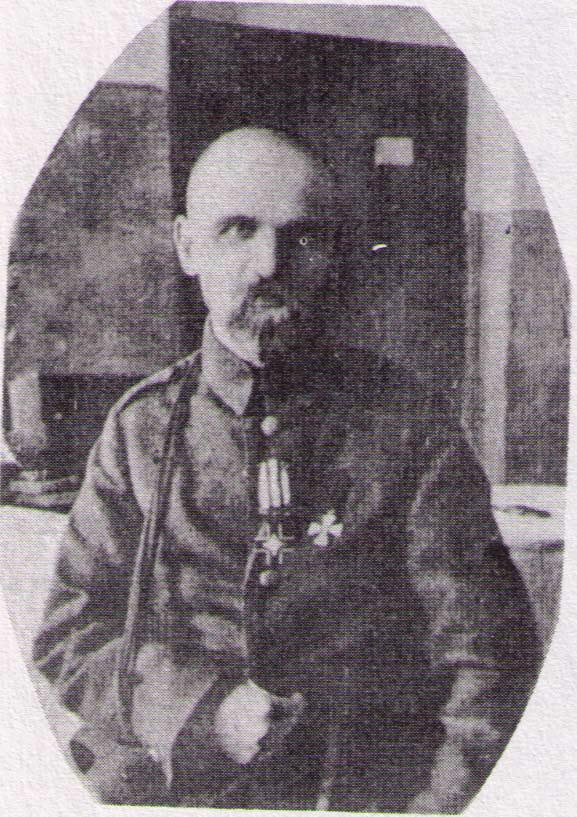 Mykhailo Omelianovych-Pavlenko